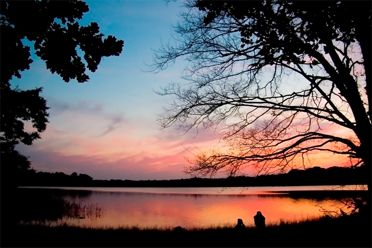 Sunset as seen from the south-west beach of lake Yddinge (Yddingesjön) near Svedala, Sweden.